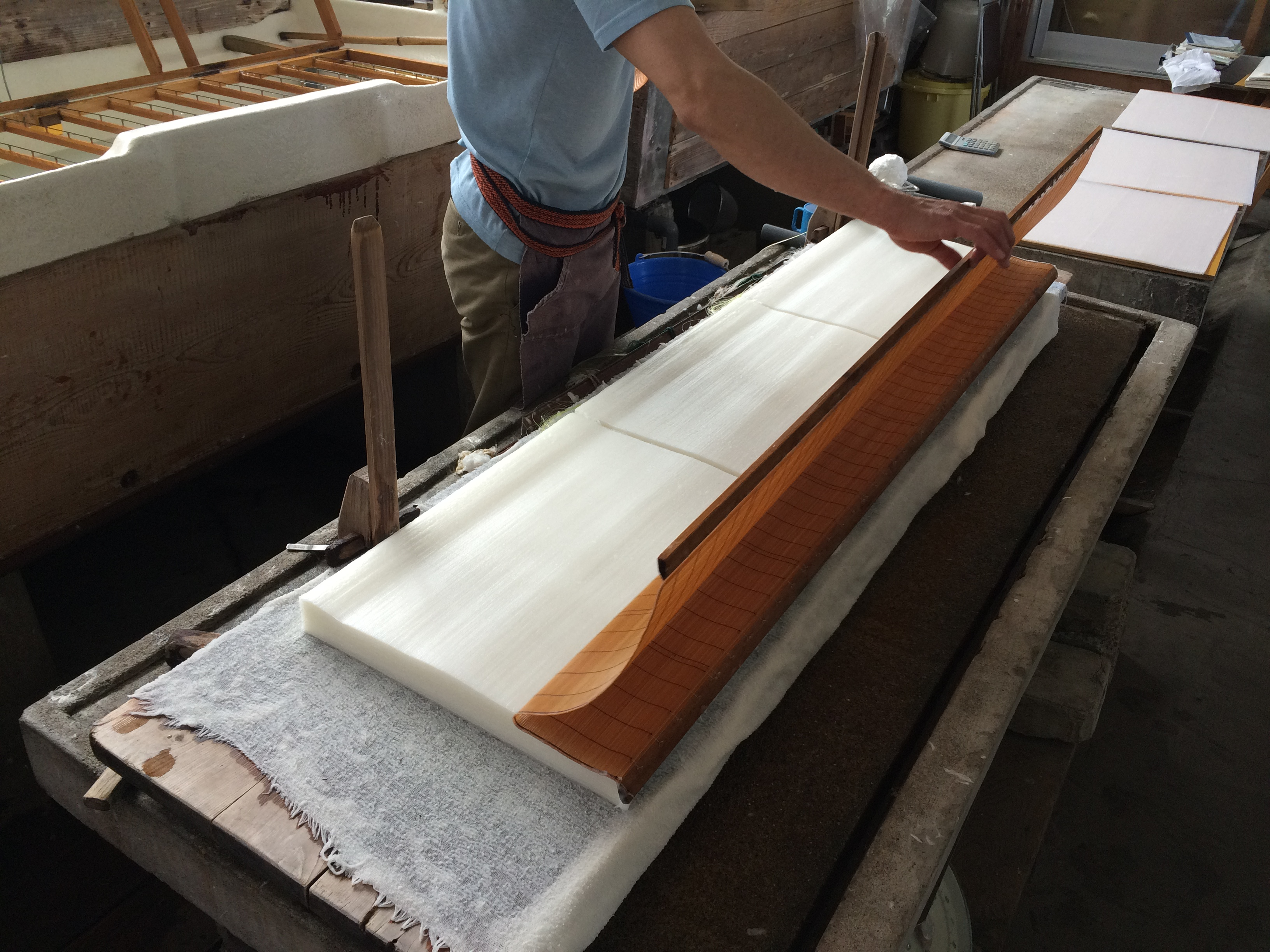 Dropping a sheet of Japanese paper on a desk one by one.